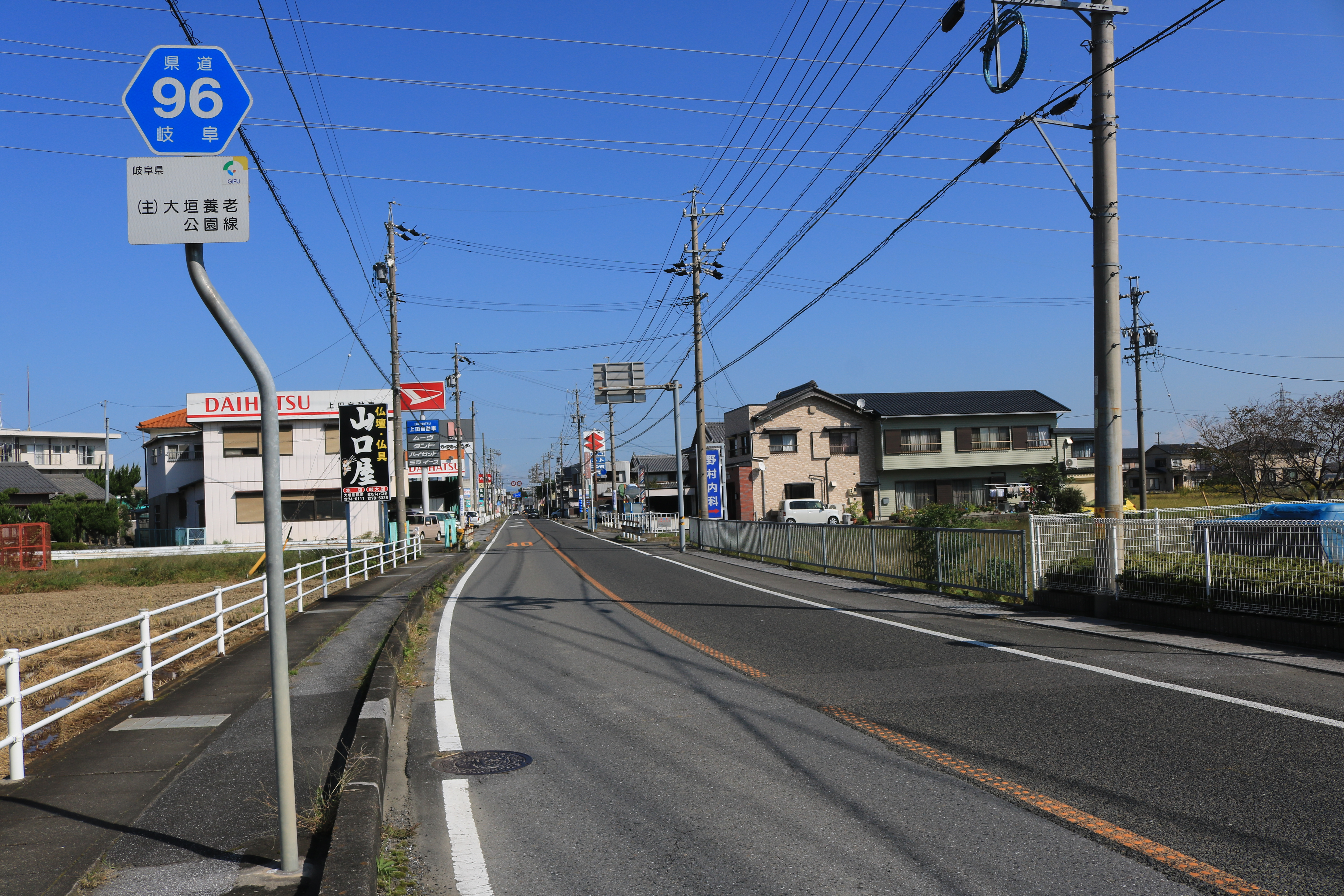 Gifu Prefectural Road Route 96 in Ishibata, Yoro town, Gifu prefecture, Japan.